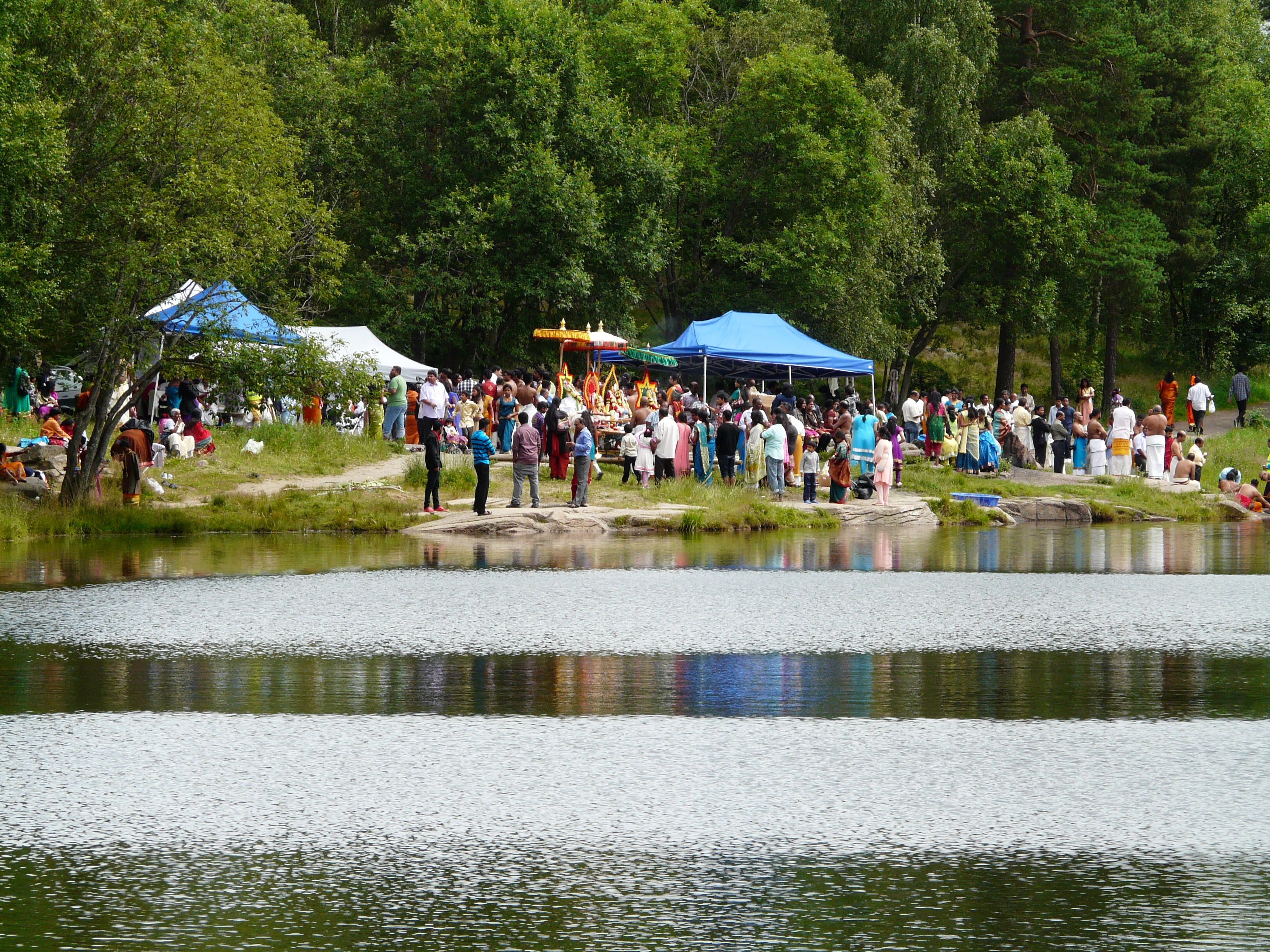 Hindu festival at Vesletjern, Bydel Grorud, Oslo.